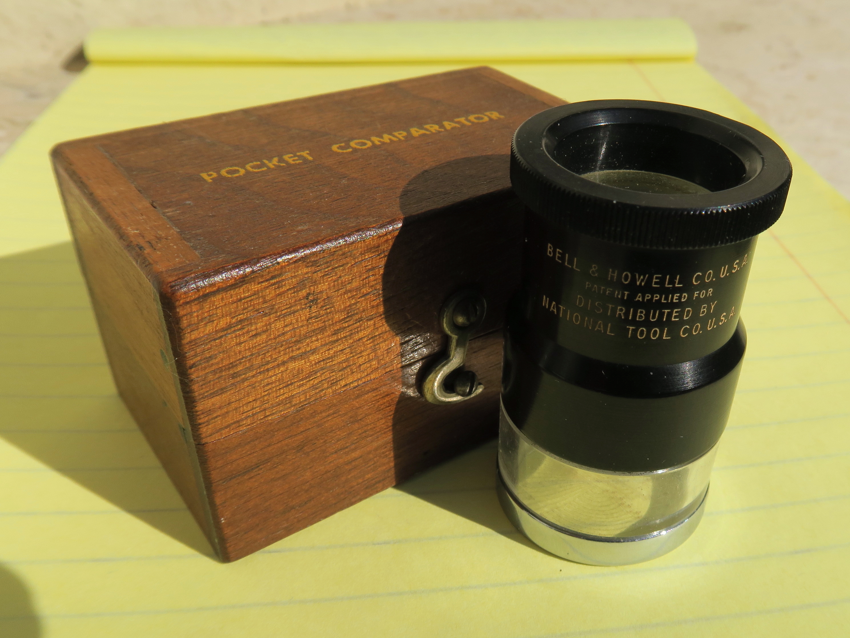 Bell & Howell Pocket Comparator with wooden box